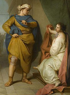 Orosmane and Zaire in the 1832 theatrical production